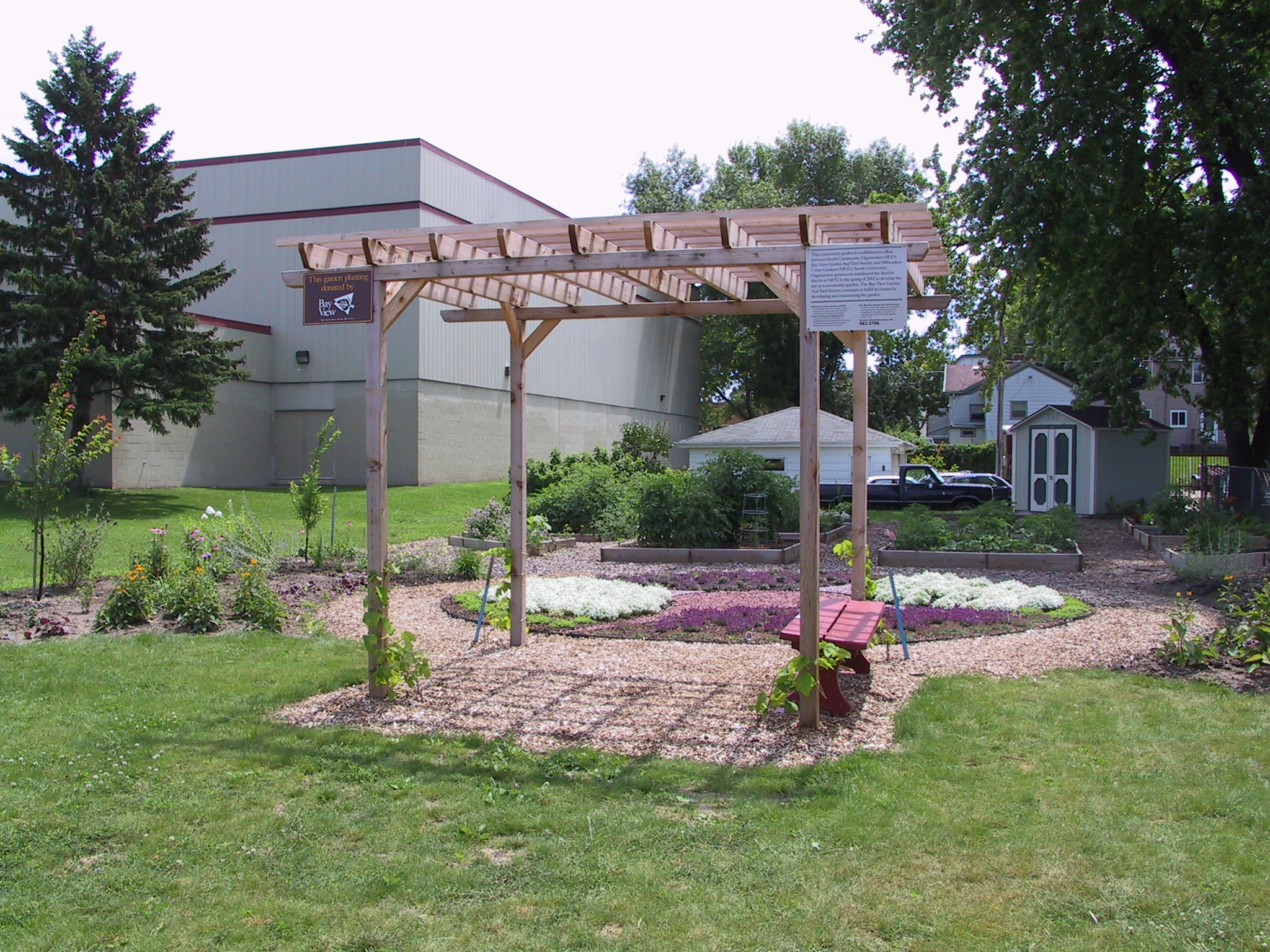 Entrance to the Village Roots Garden in 2004, showing the new pergola, compass feature, and the rental beds.